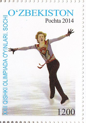 Stamp of Uzbekistan 2014 Misha Ge